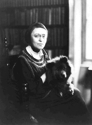 Photograph of Elisabeth Gilman (1867–1950), daughter of educator Daniel Coit Gilman, and candidate for the governorship of Maryland under the Socialist Party of America in 1930